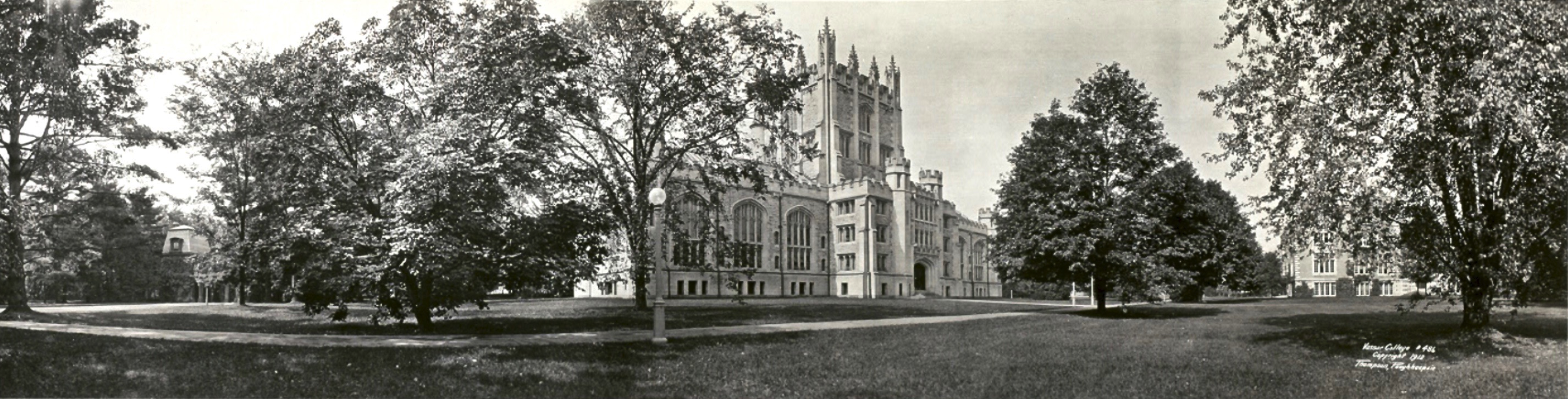 Vassar College in the town of Poughkeepsie, New York